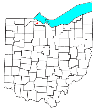 Locator map of the unincorporated community of Graytown in Ottawa County, Ohio, United States.